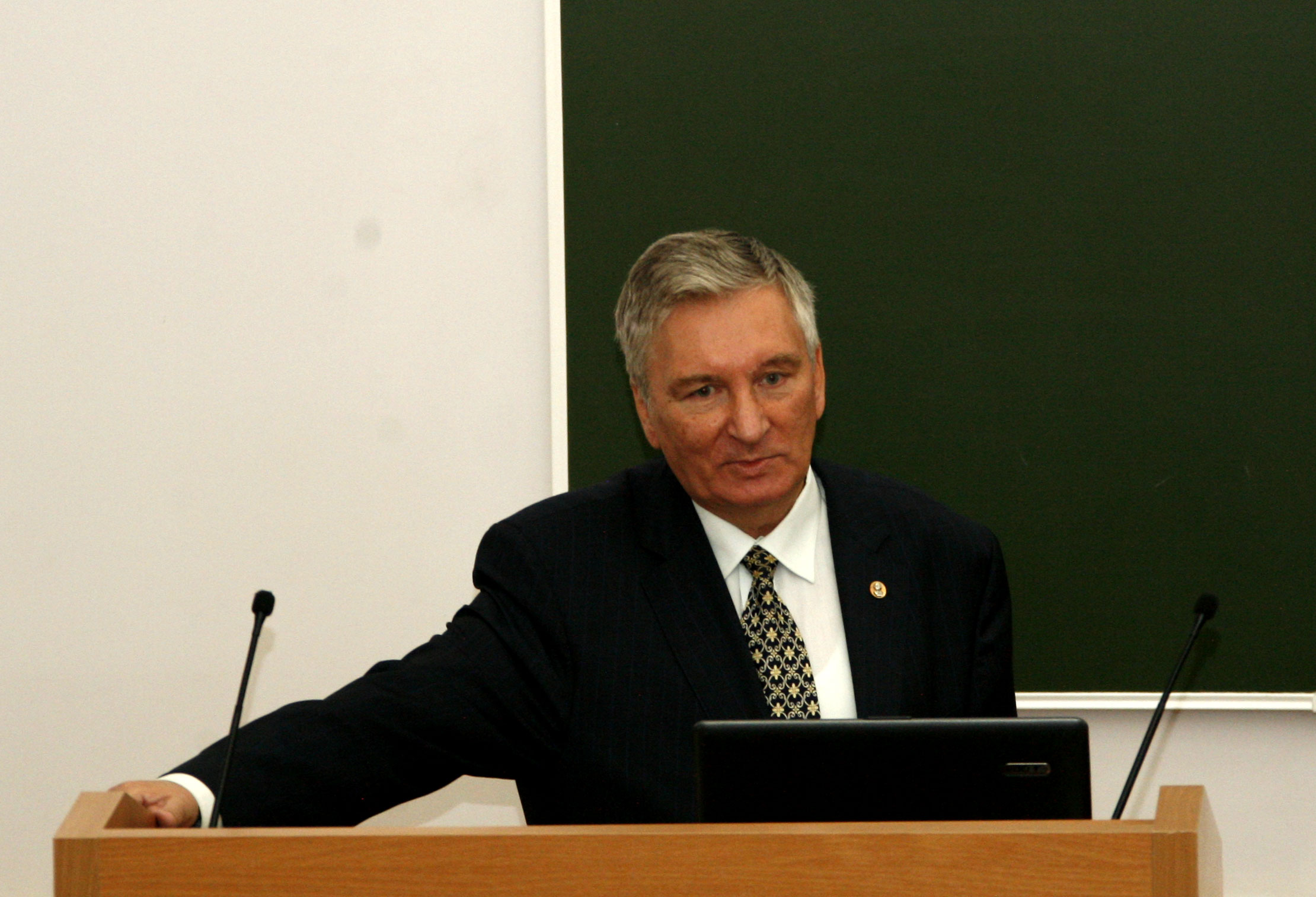 hist. fac. msu